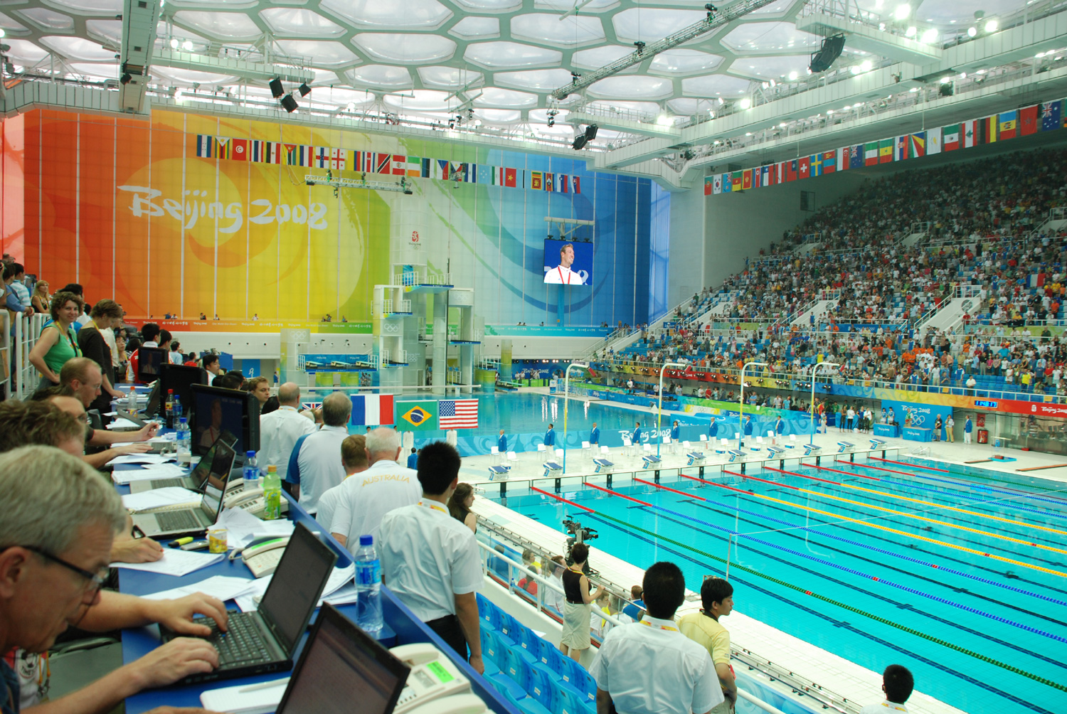 The watercube, Beijing, during de 100 meter's victory ceremony, august 14th 2008